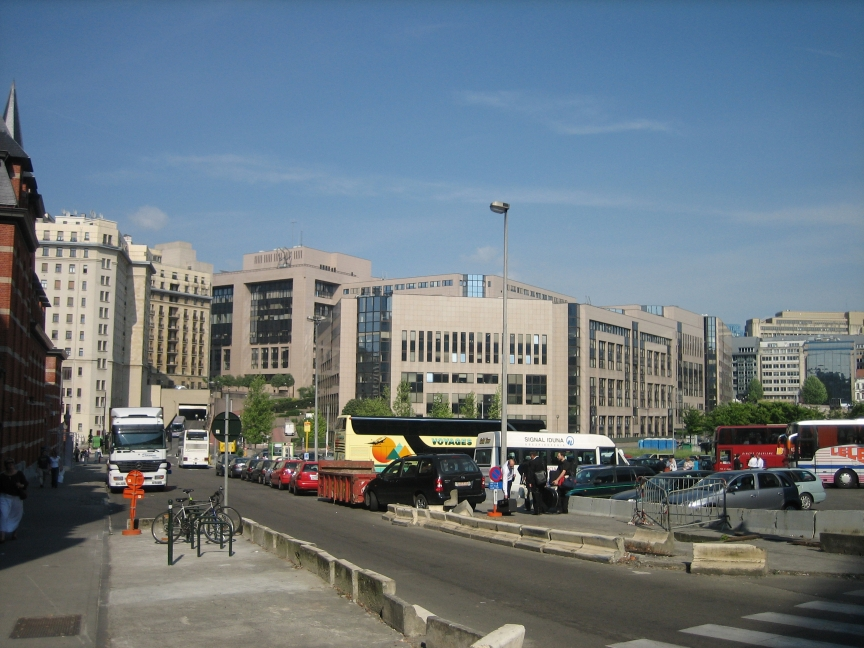 Justus Lipsius building of the Council of the European Union, viewed from the south. Left towards the back: Residencé Palace. Far left ref building, central library of the European Commission.